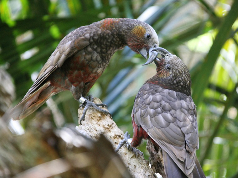 North Island Kākā, at Auckland Zoo, New Zealand